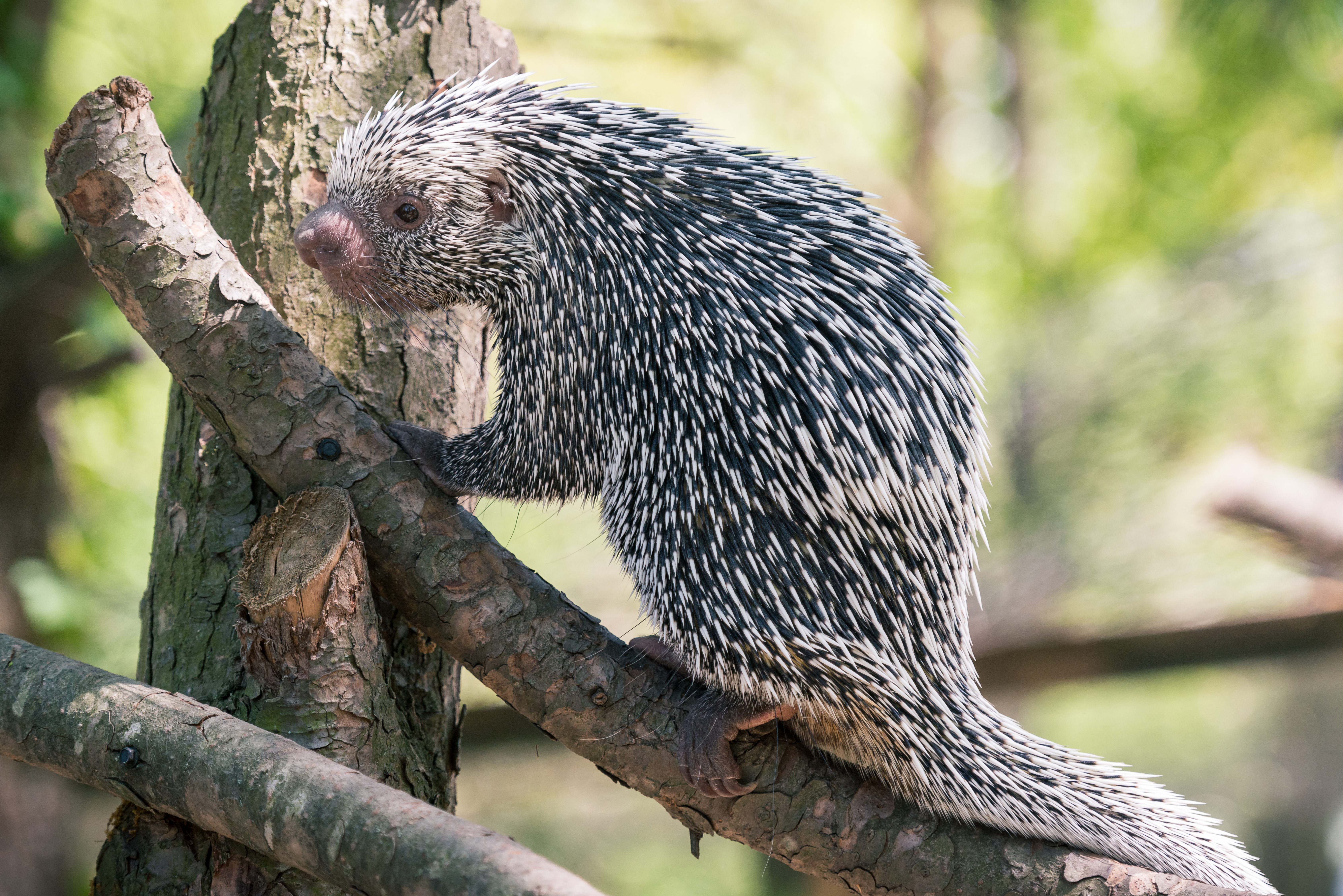 Prehensile Tail Porcupine Climbing a Branch